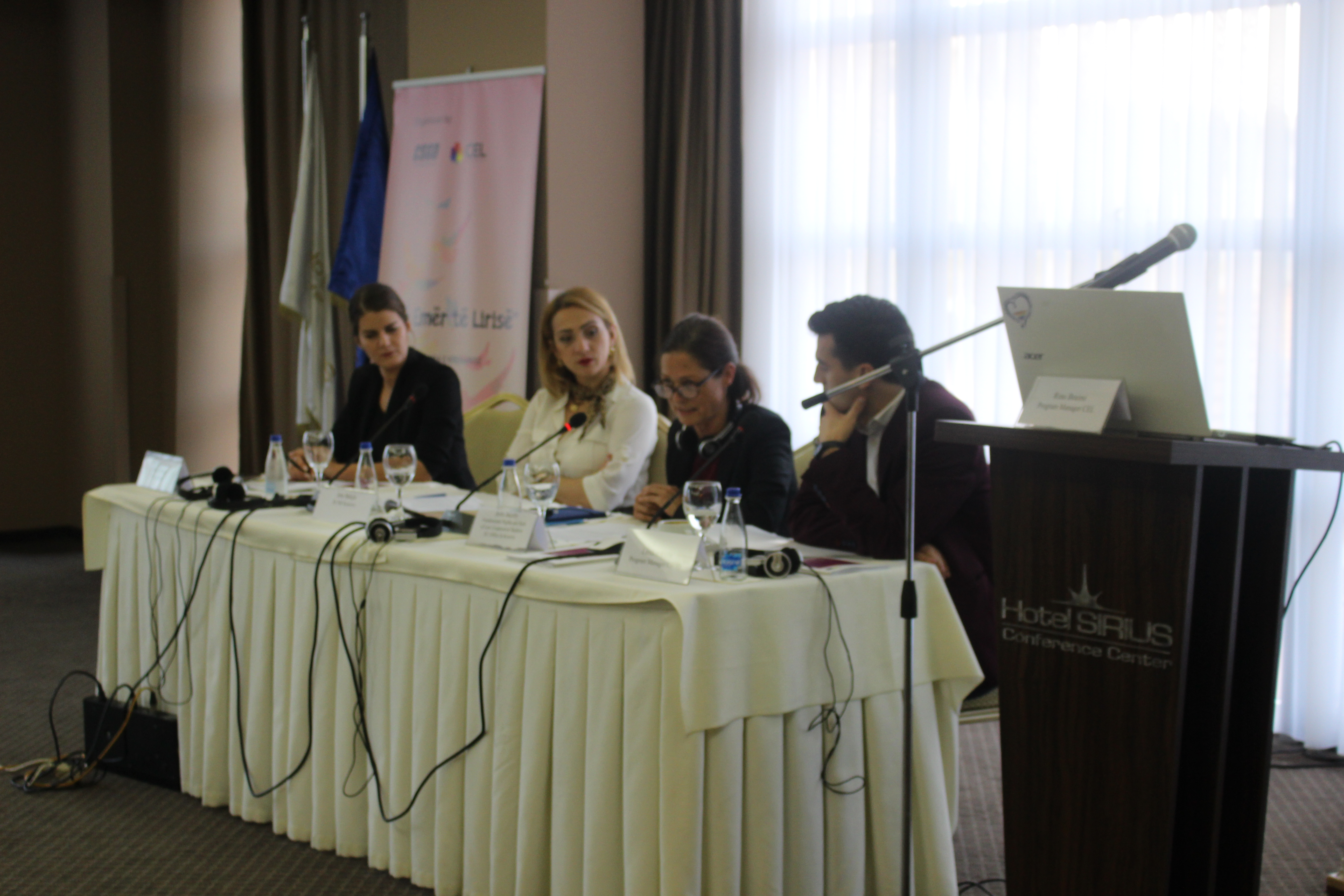 A panel of activists and representatives of LGBT+ organizations during Kosovo Pride Week